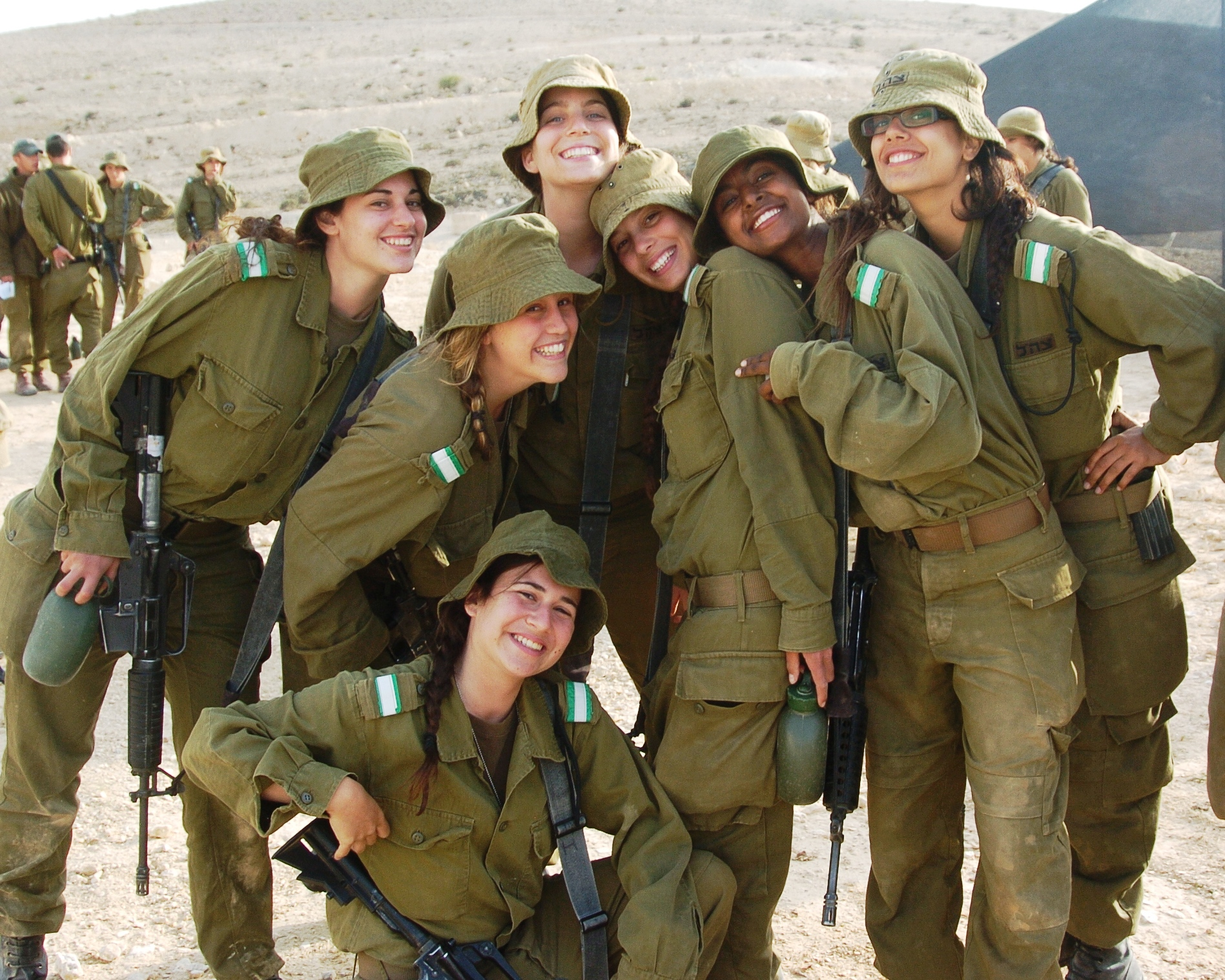 May 16, 2011 A diverse group of female infantry instructors take a break from their intensive course in southern Israel. After completing the infantry instructors course, the female instructors are responsible for training combat soldiers on battlefield tactics including various weaponry and combat armored vehicles. Featured as photo of the day on August 3, 2011. Photography: Pvt. Shay Wagner, IDF Spokesperson's Unit.